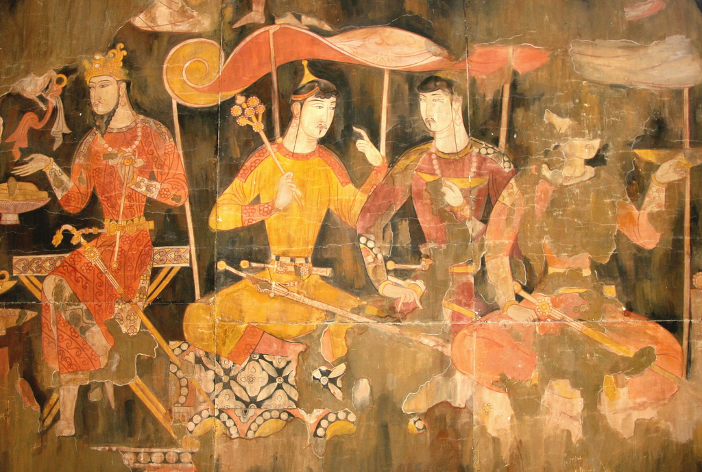 Sogdian painting showing Sogdian merchants.